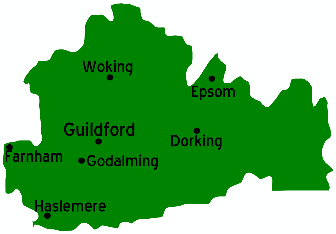 Map of Surrey Source: :Image:UK map.svg map: England Map of: England